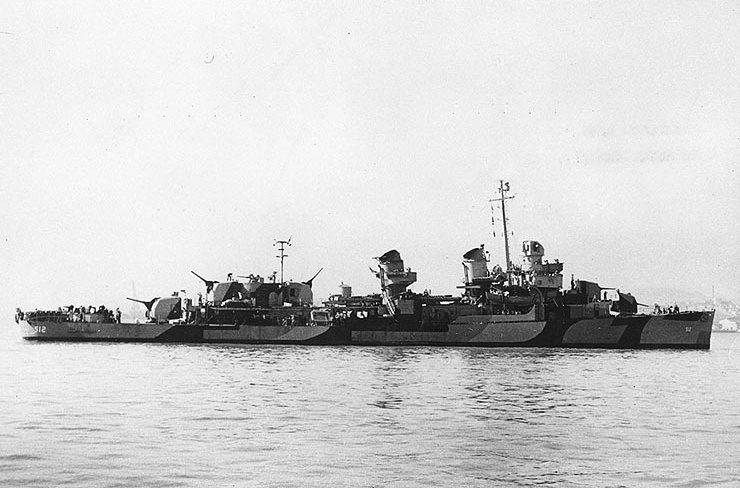 The U.S. Navy destroyer USS Spence (DD-512) in San Francisco Bay, California (USA), on 9 October 1944. The ship is wearing Camouflage Measure 31, Design 2C.